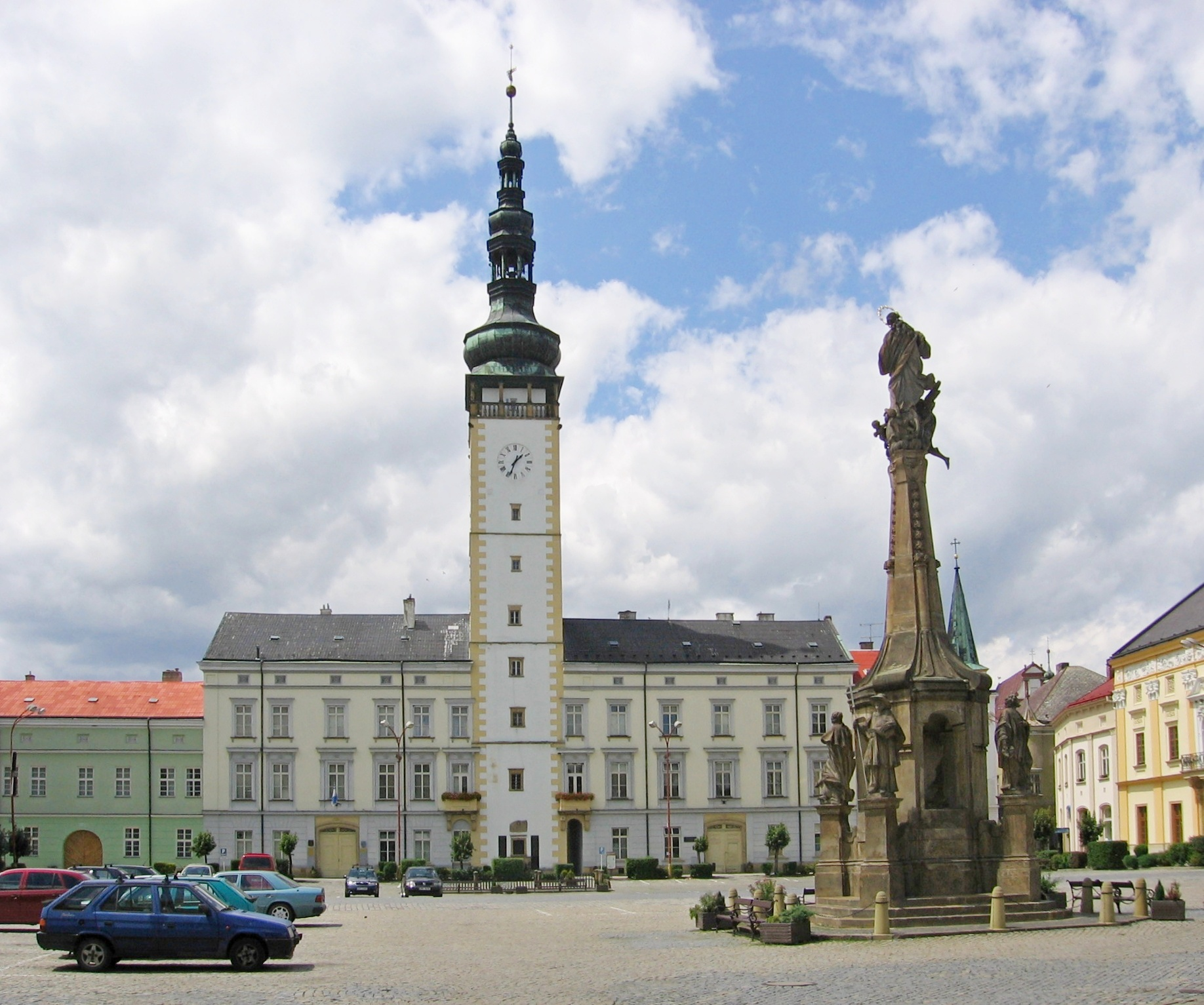 Square of Přemysl Otakar II in Litovel (Czech Republic)